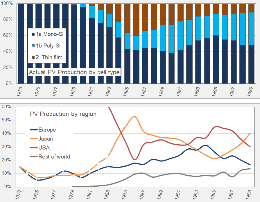 Figures from book The Solar Generation: Childhood and Adolescence of Terrestrial Photovoltaics